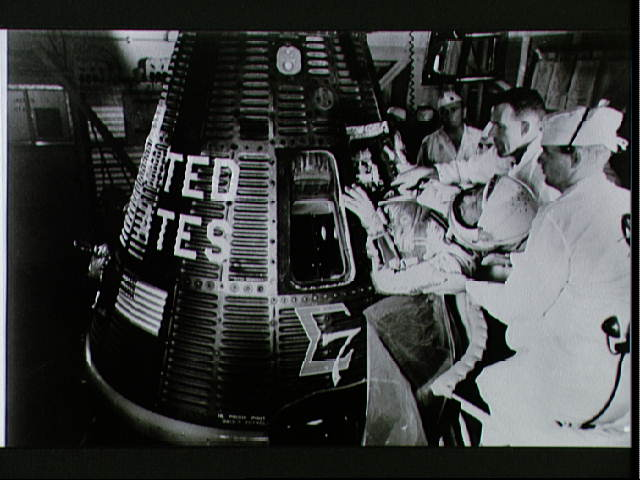 Astronaut Walter M. Schirra Jr., pilot of the Mercury-Atlas 8 (MA-8) earth orbital space flight, is assisted by back-up pilot L. Gordon Cooper and NASA engineers into his Sigma 7 spacecraft for the begining of the MA-8 mission.